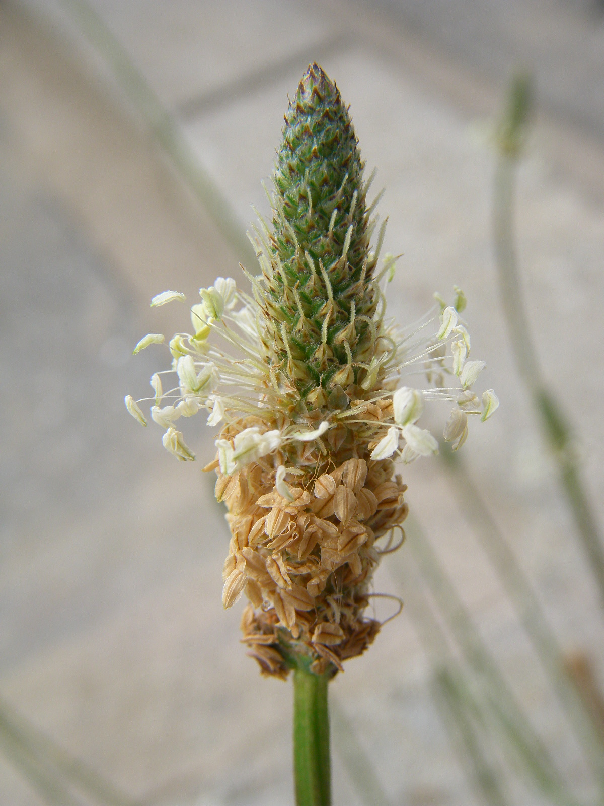 Flowers of Ribwort Plantain (Plantago lanceolata). Dry riverbed of Hirose River. Aoba ward, Sendai, Miyagi prefecture, Japan.